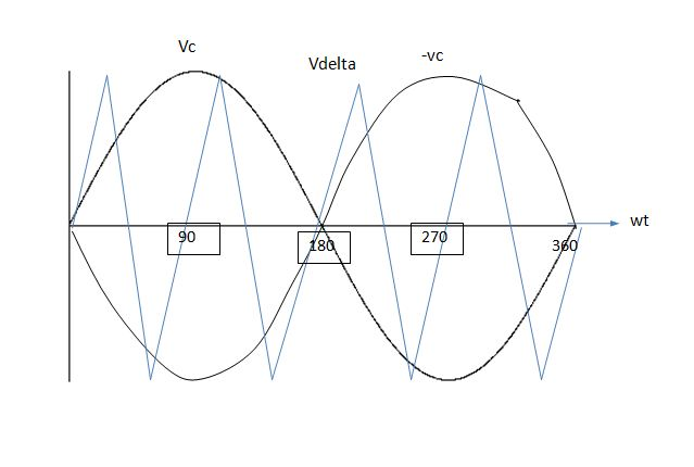 Bipolar pulse width modulation